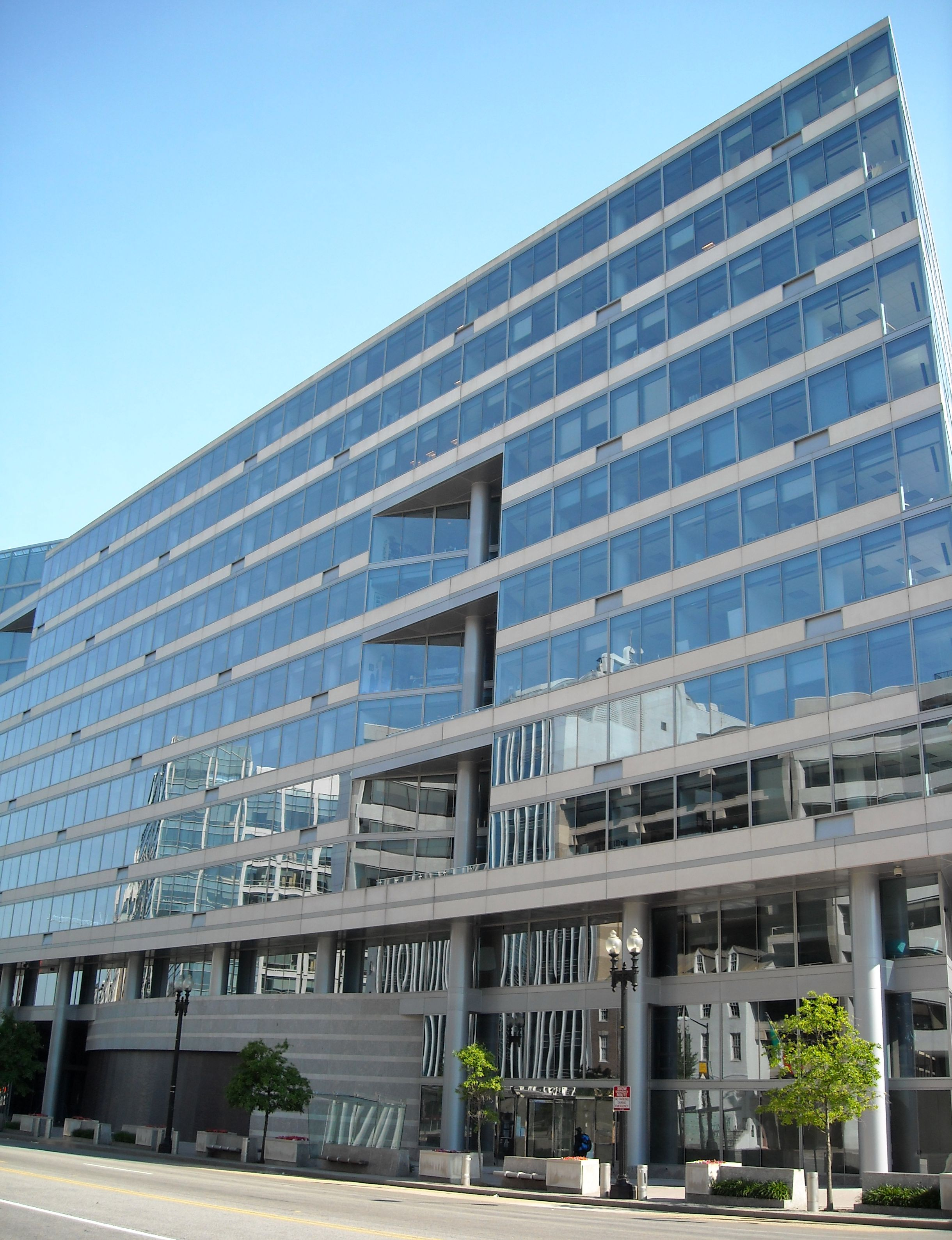 International Monetary Fund building on Pennsylvania Avenue in Washington, D.C.